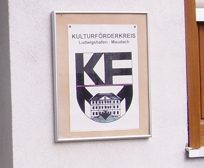 in Ludwigshafen, Germany